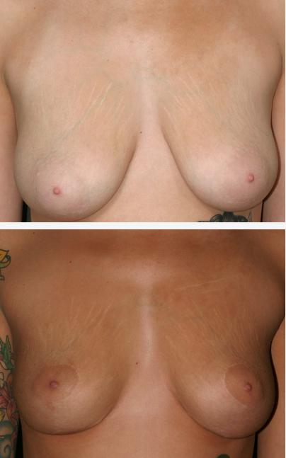 Mastopexy (breast lift; two-plates: pre-operative aspect (above) and post-operative (below).